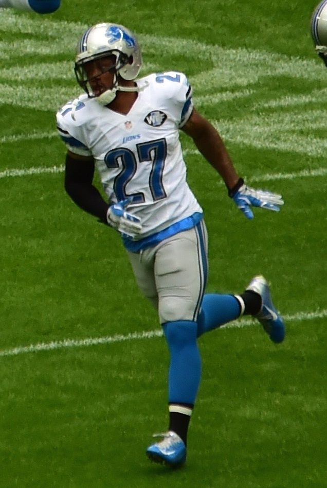 Detroit Lions vs Atlanta Falcons - Wembley 2014